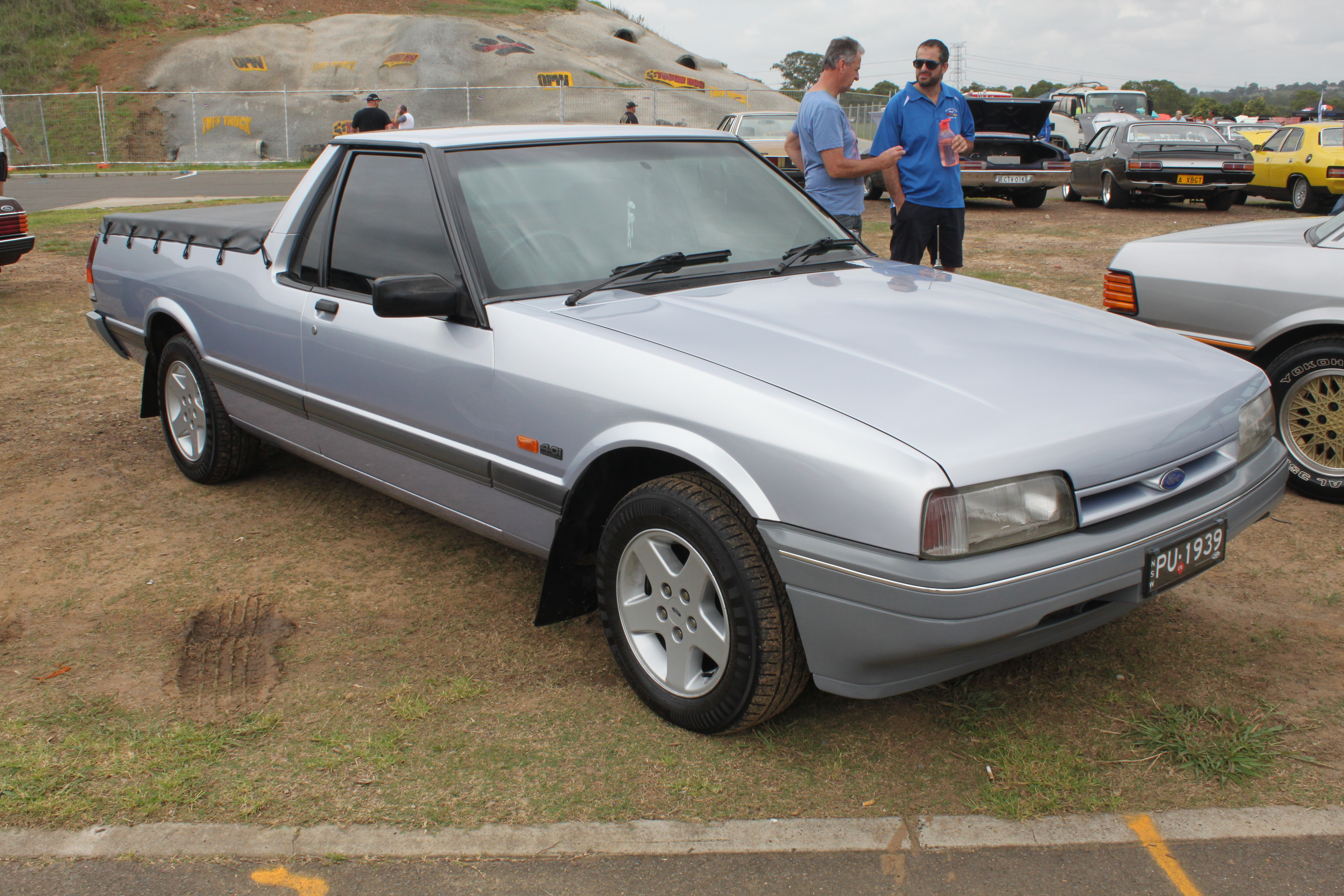 All Ford Day, Eastern Creek NSW, November 2015